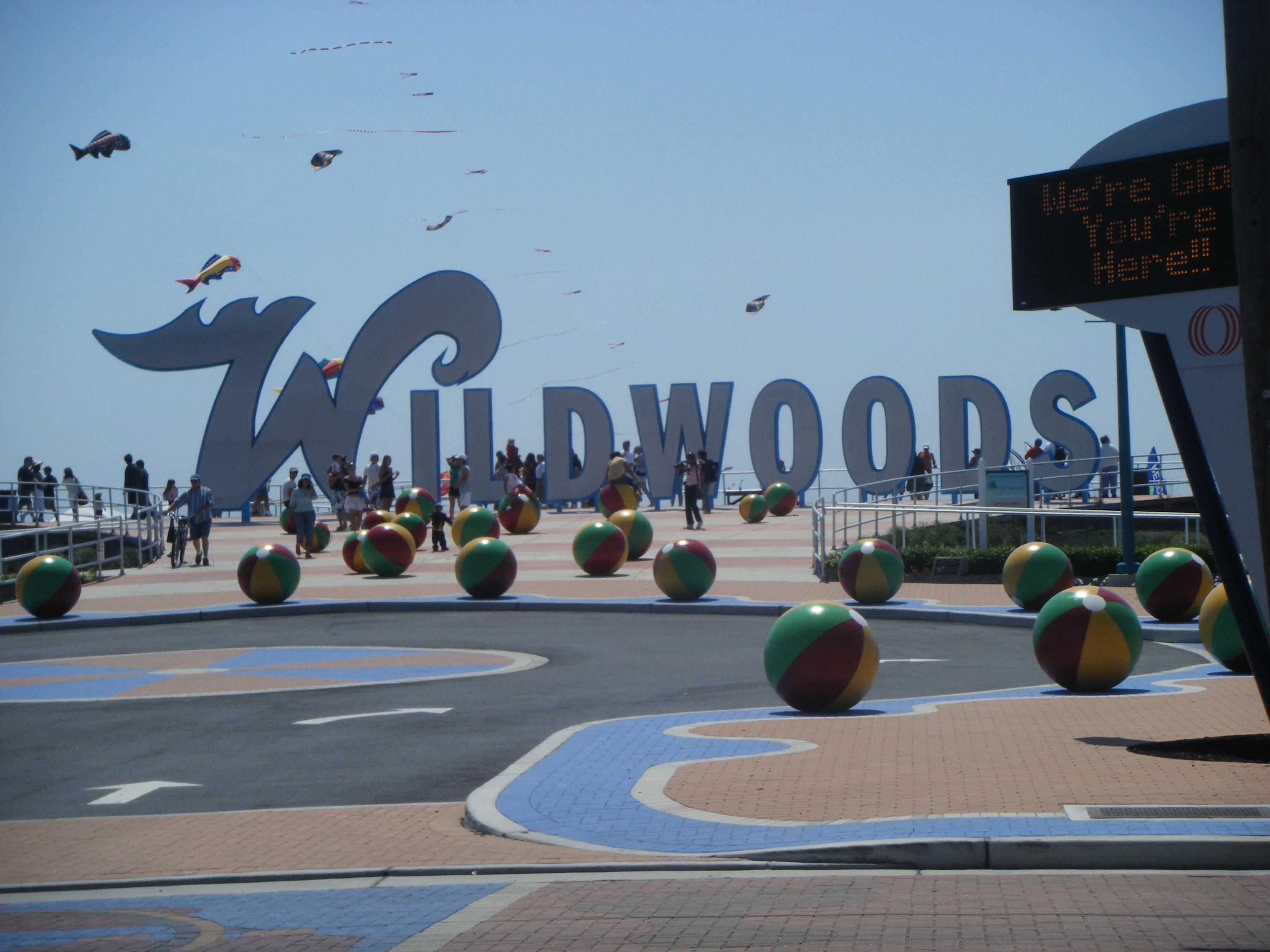 Wildwoods sign on the boardwalk in Wildwood, New Jersey, taken on Memorial Day 2008.